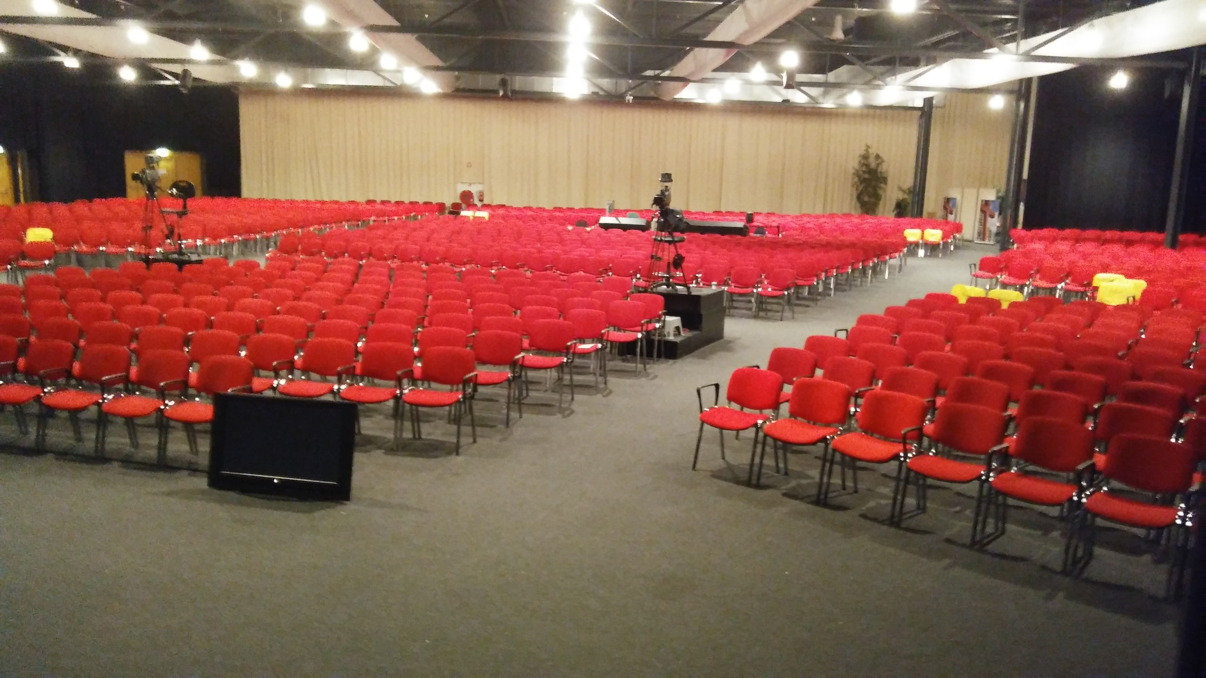 The largest hall of the baptist church Bethel in Drachten (Netherlands). Nordfriisk: De grutste saal van de bethelgemeente út Drachten.